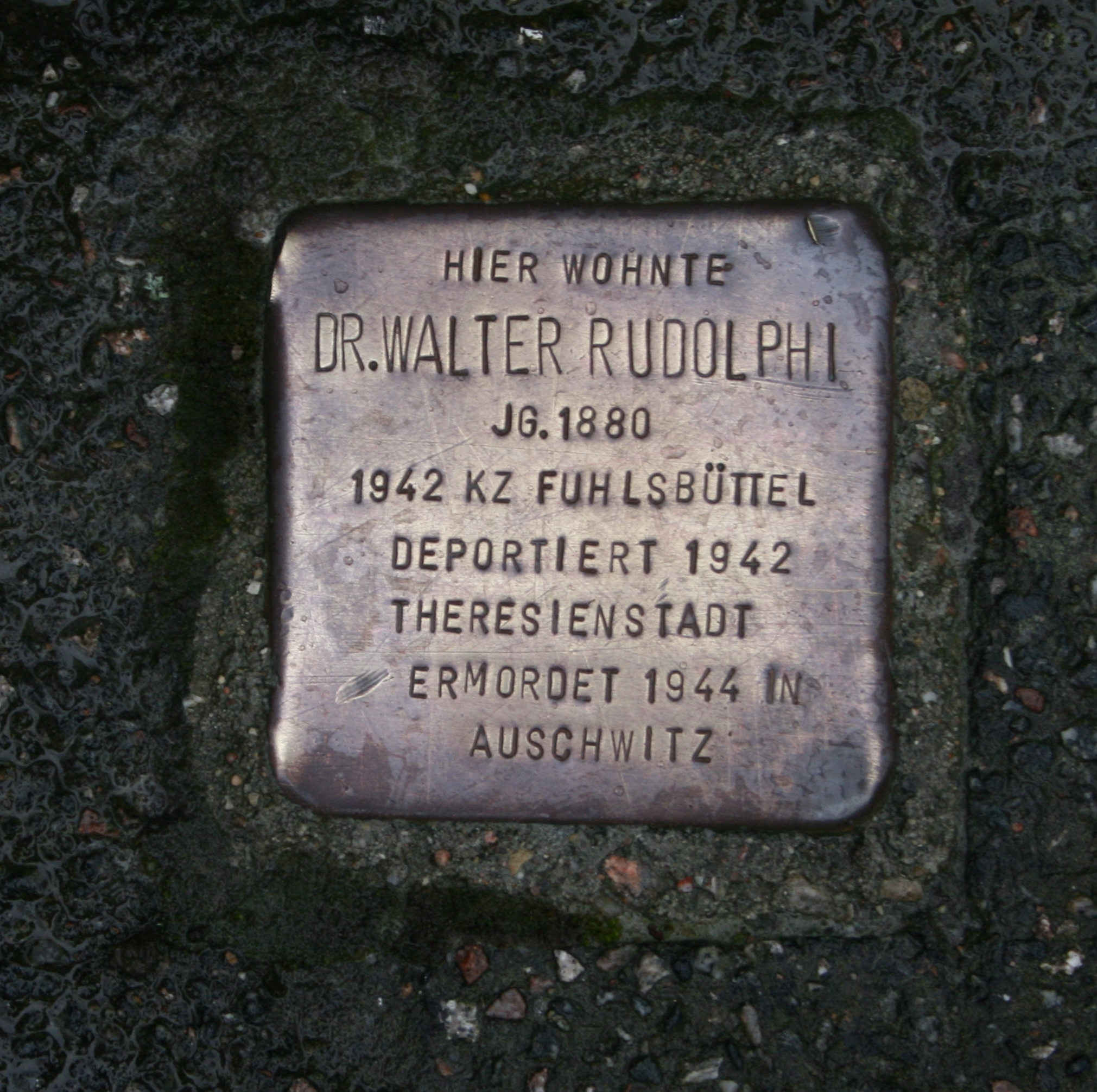 Stolperstein for Dr. Walter Rudolphi in Hamburg-Bergedorf, Pfingstberg 6